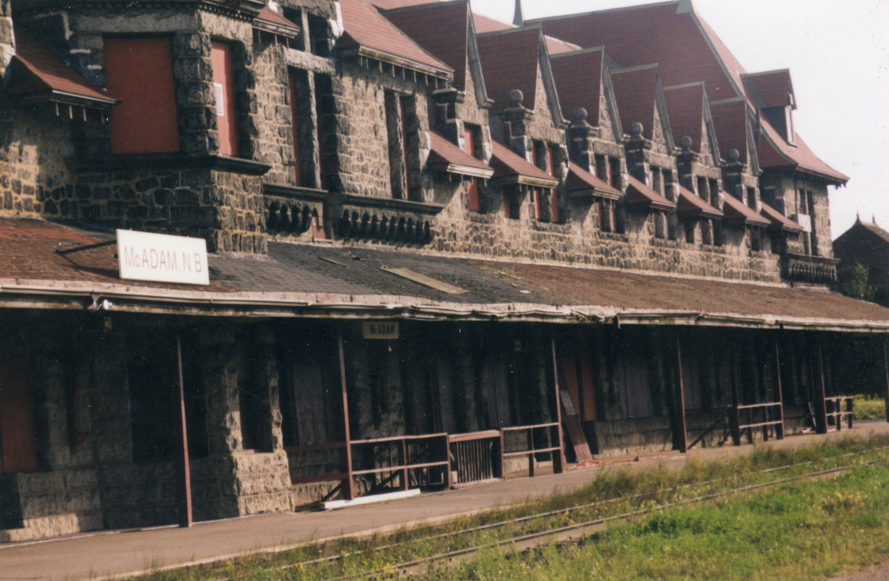 Historical buildings in New Brunswick Canada